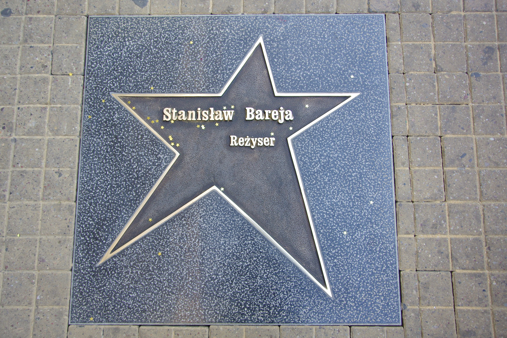 Łódź Walk of Fame - Stanisław Bareja